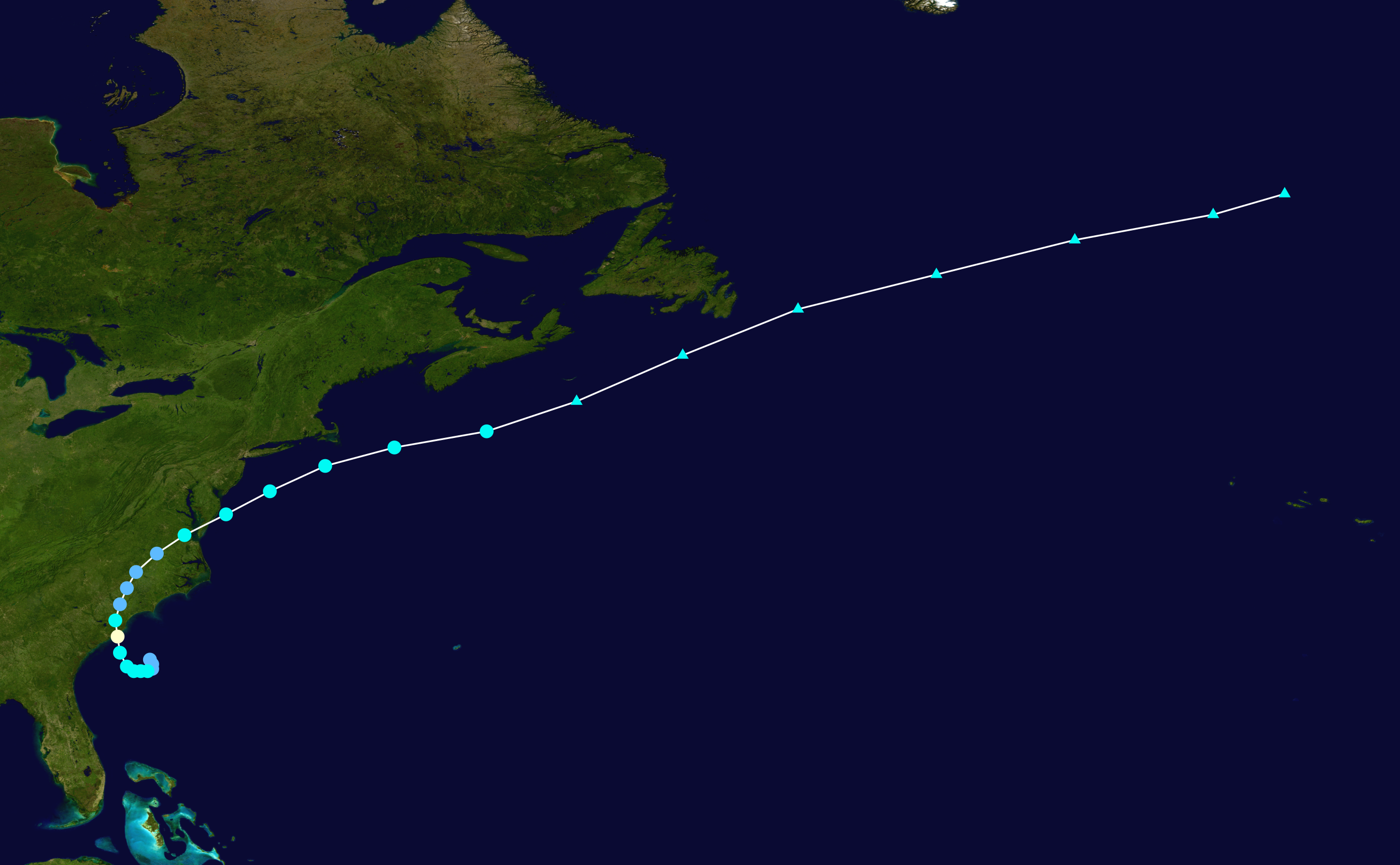 Track map of Hurricane Gaston of the 2004 Atlantic hurricane season. The points show the location of the storm at 6-hour intervals. The colour represents the storm's maximum sustained wind speeds as classified in the Saffir–Simpson scale (see below), and the shape of the data points represent the nature of the storm, according to the legend below. Saffir–Simpson scale Tropical depression≤38 mph≤62 km/h Category 3111–129 mph178–208 km/h Tropical storm39–73 mph63–118 km/h Category 4130–156 mph209–251 km/h Category 174–95 mph119–153 km/h Category 5≥157 mph≥252 km/h Category 296–110 mph154–177 km/h Unknown Storm type Tropical cyclone Subtropical cyclone Extratropical cyclone / Remnant low / Tropical disturbance / Monsoon depression